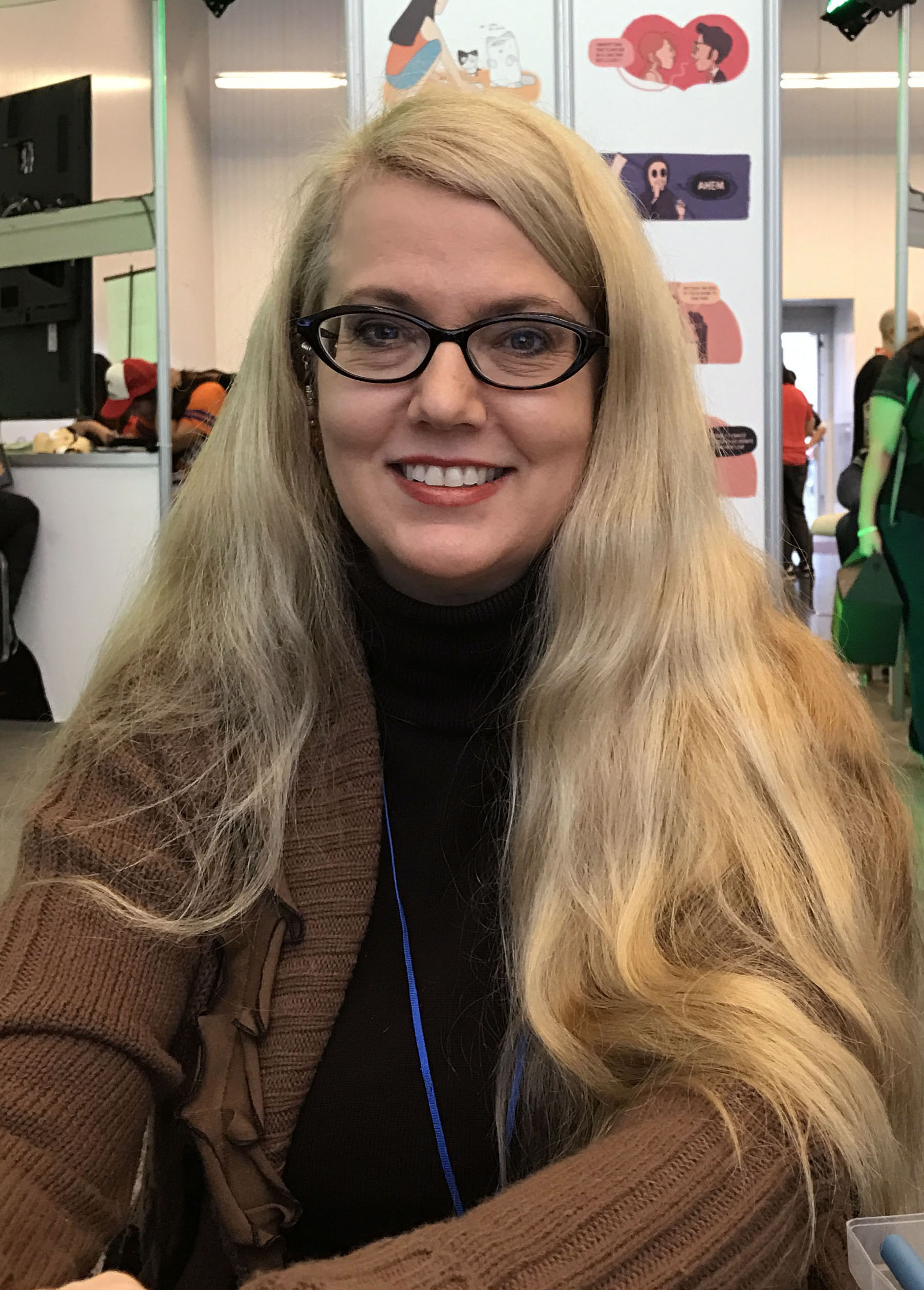 Comic book creator Colleen Doran in Artist Alley at the Jacob K. Javits Convention Center in Manhattan, on Saturday October 8, 2016, Day 3 of the 2016 New York Comic Con. This photo was created by Luigi Novi. It is not in the public domain, and use of this file outside of the licensing terms is a copyright violation.